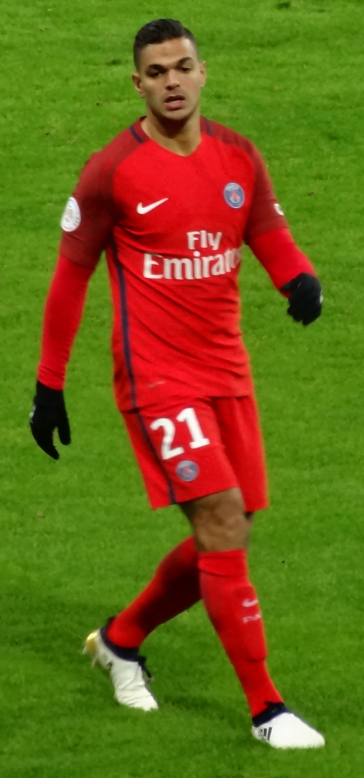 Ben Arfa (PSG)